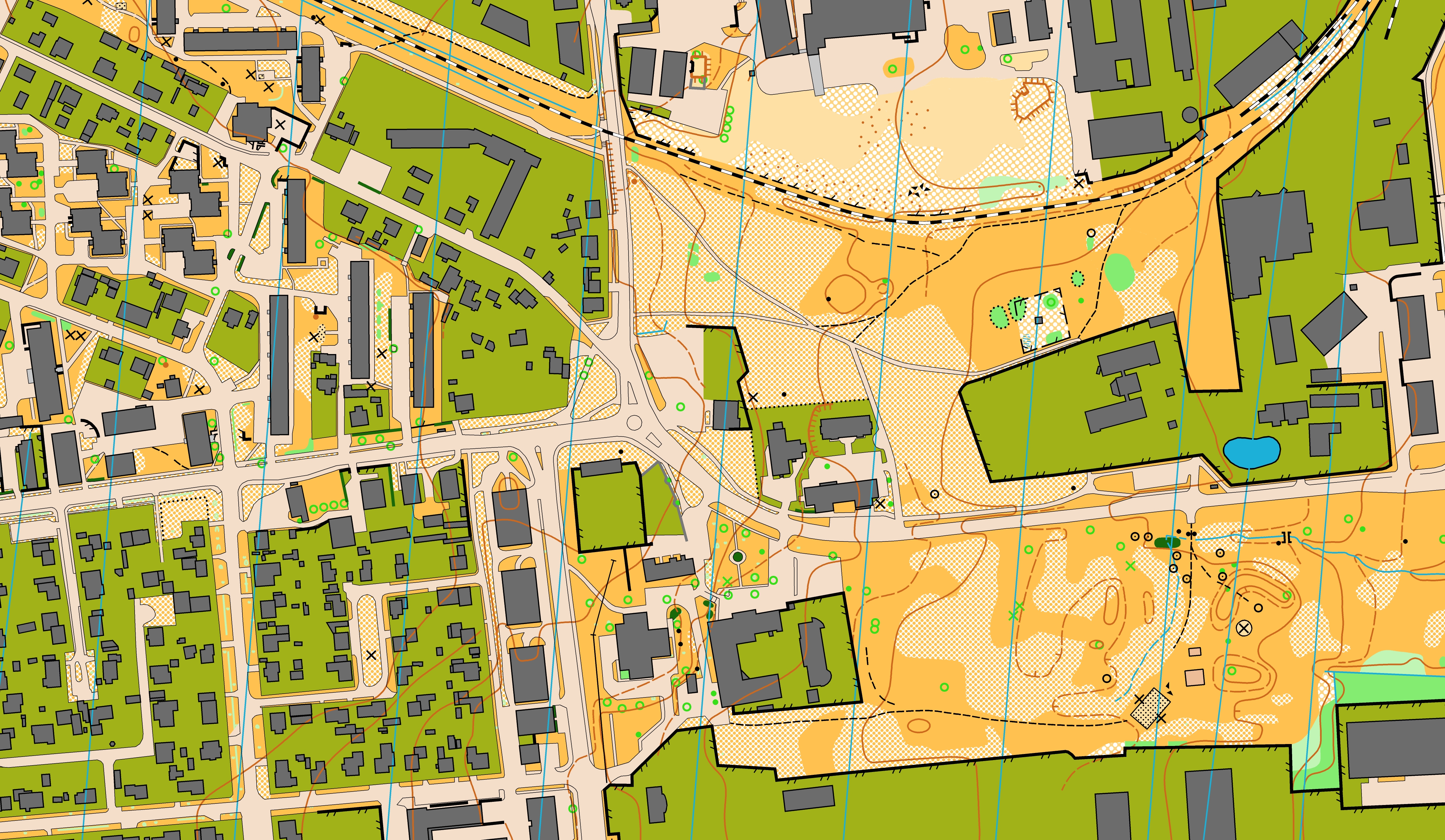 Sprint orienteering map (ISSOM 2007) depicting parts of Karlova and Ropka districts of Tartu.